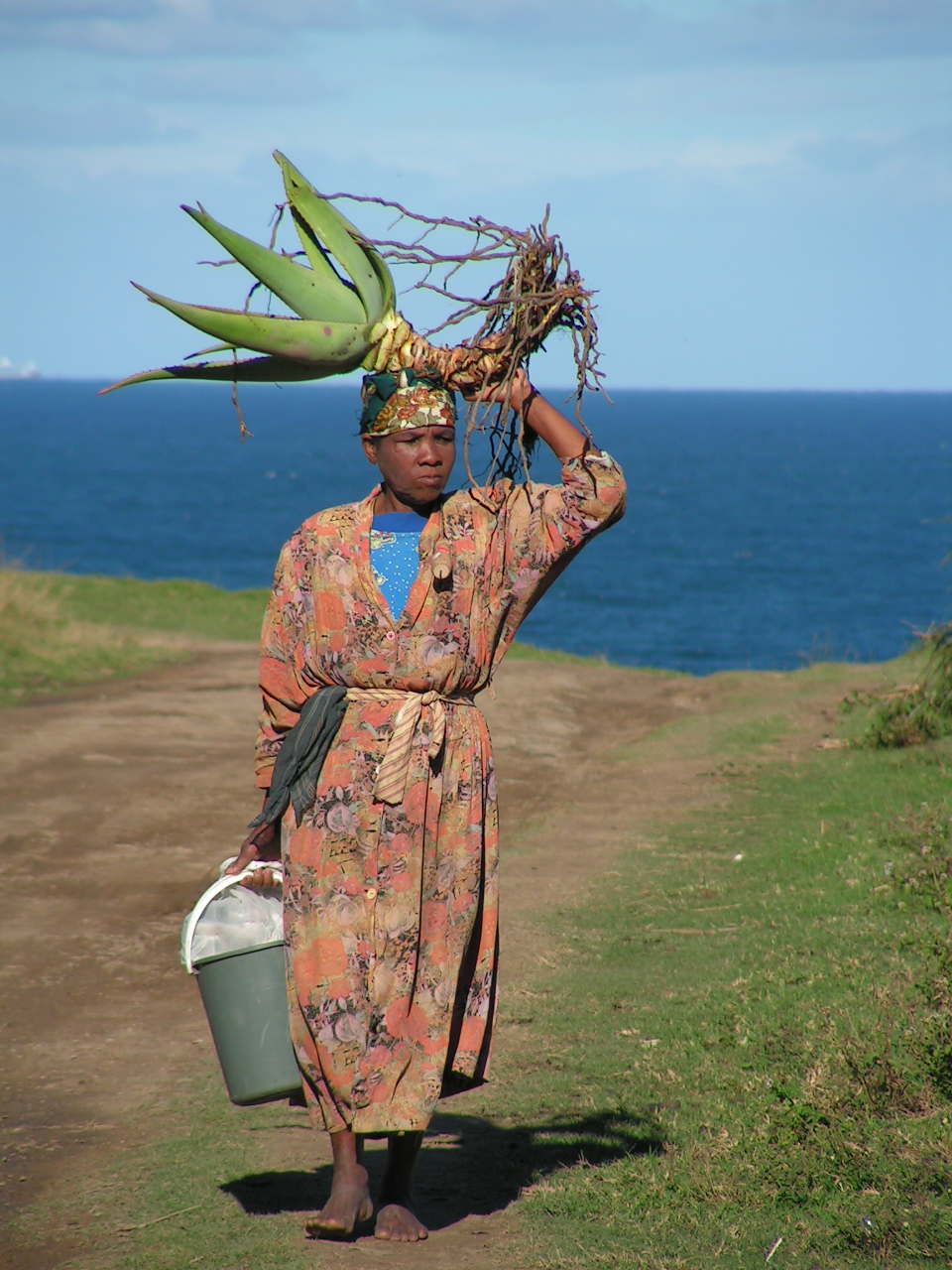 Middle aged Mpondo woman on her way home (Mpande, Transkei South Afrika), 25.05.05, Marnie Knorr